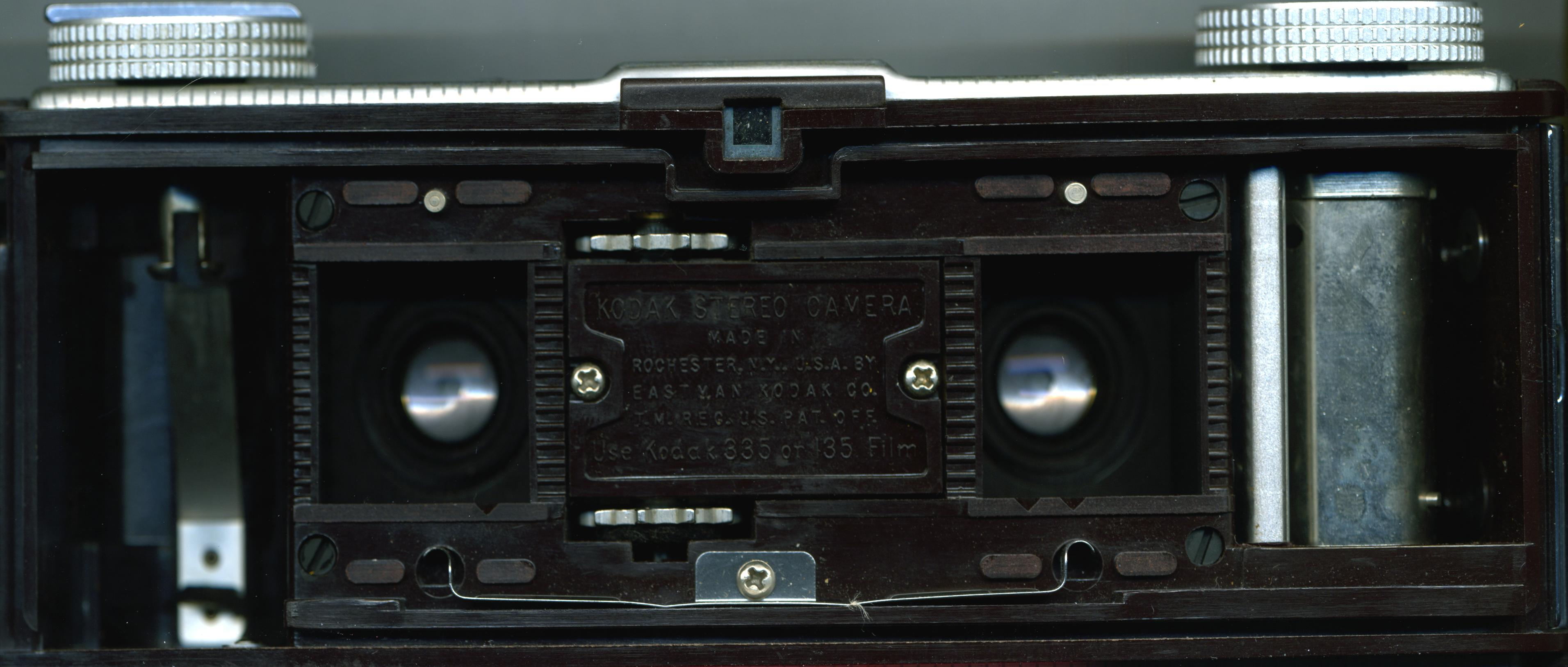 The Kodak Stereo camera, inside back view with back open